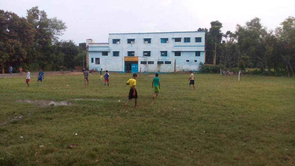 Front View